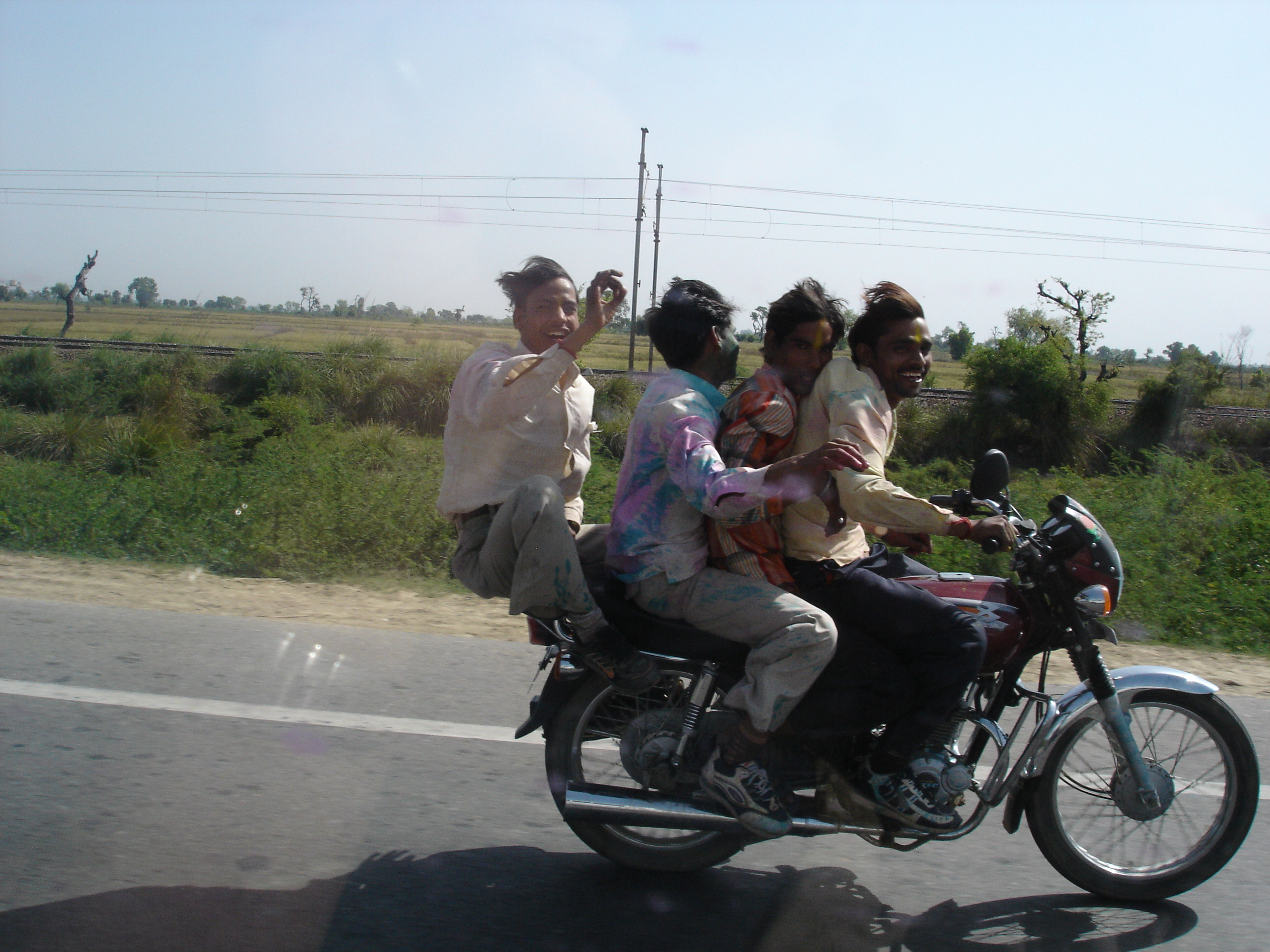 The Holi festival means that you throw color at each other, and drink weird drinks. These four guys were making about 70 km/h on their little bike, and at least the three in the back were rather drunk.